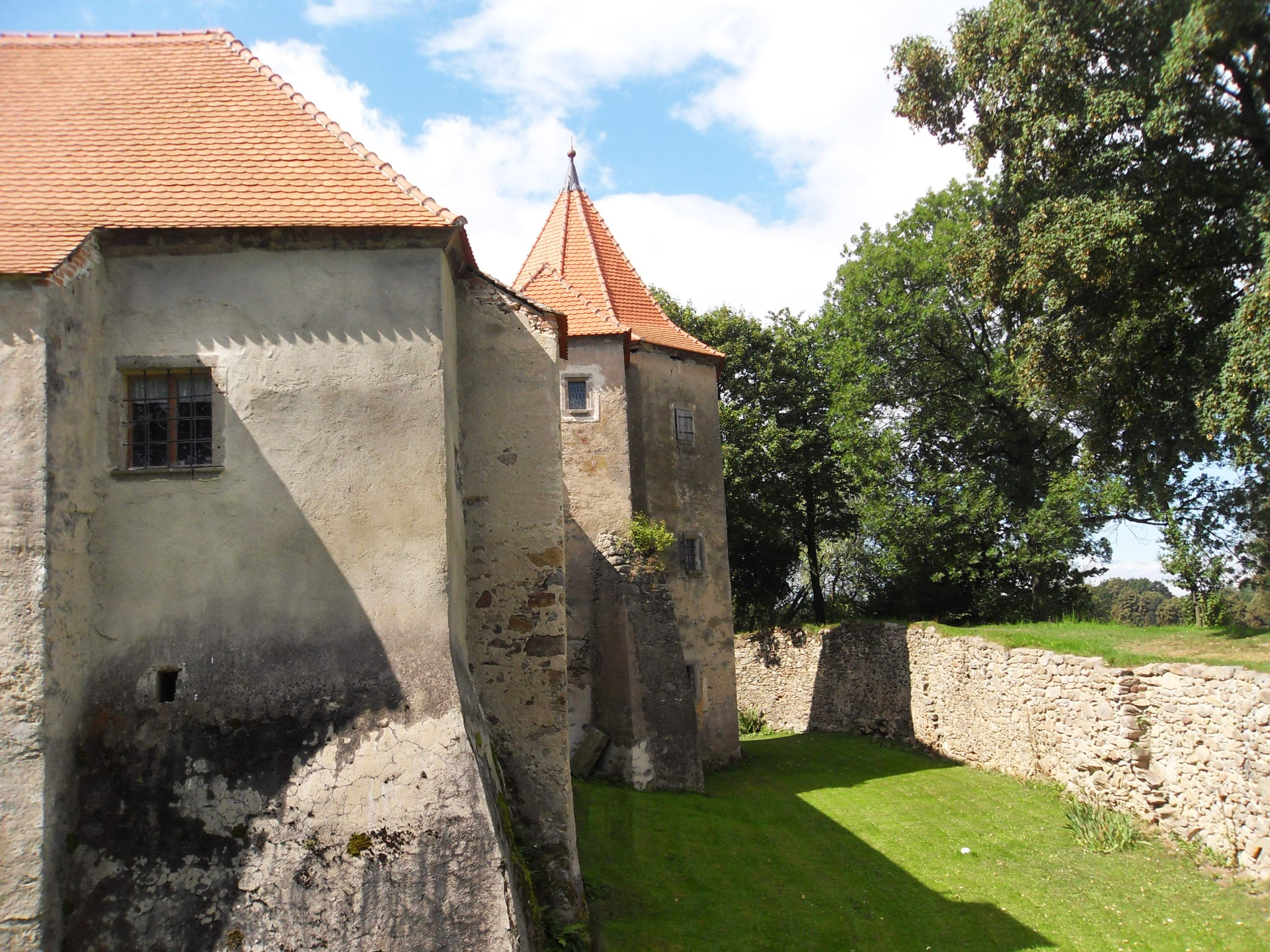 Cuknštejn fortress, Údolí, Nové Hrady, České Budějovice district, Czech Republic